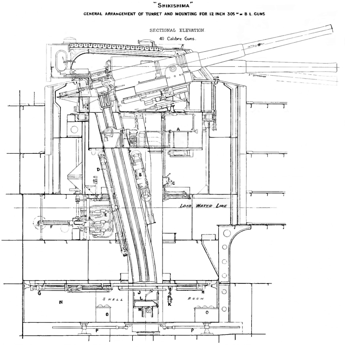 Right elevation diagram of 12-inch 40-calibre gun turret of Japanese Shikishima class battleship.